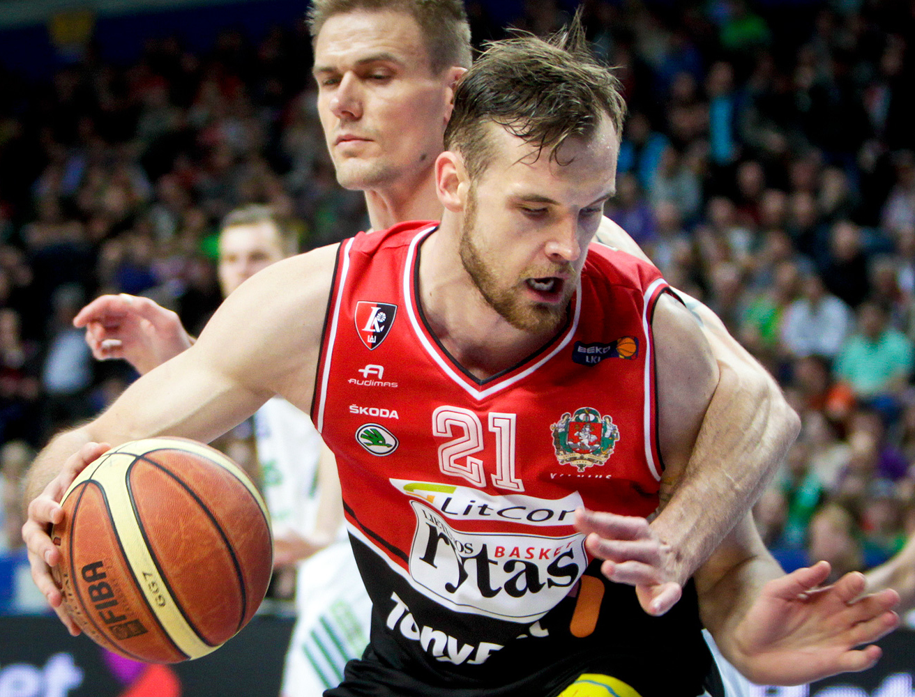 Lithuanian basketball player Antanas Kavaliauskas